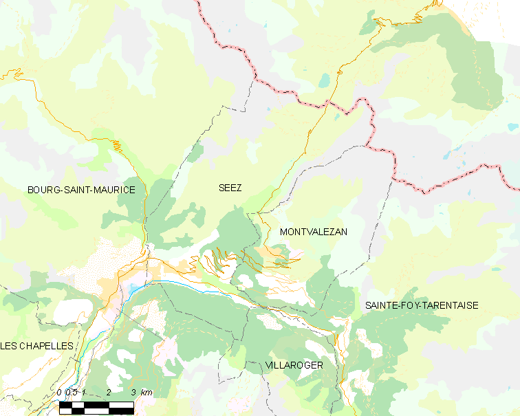 Map of French municipality Séez